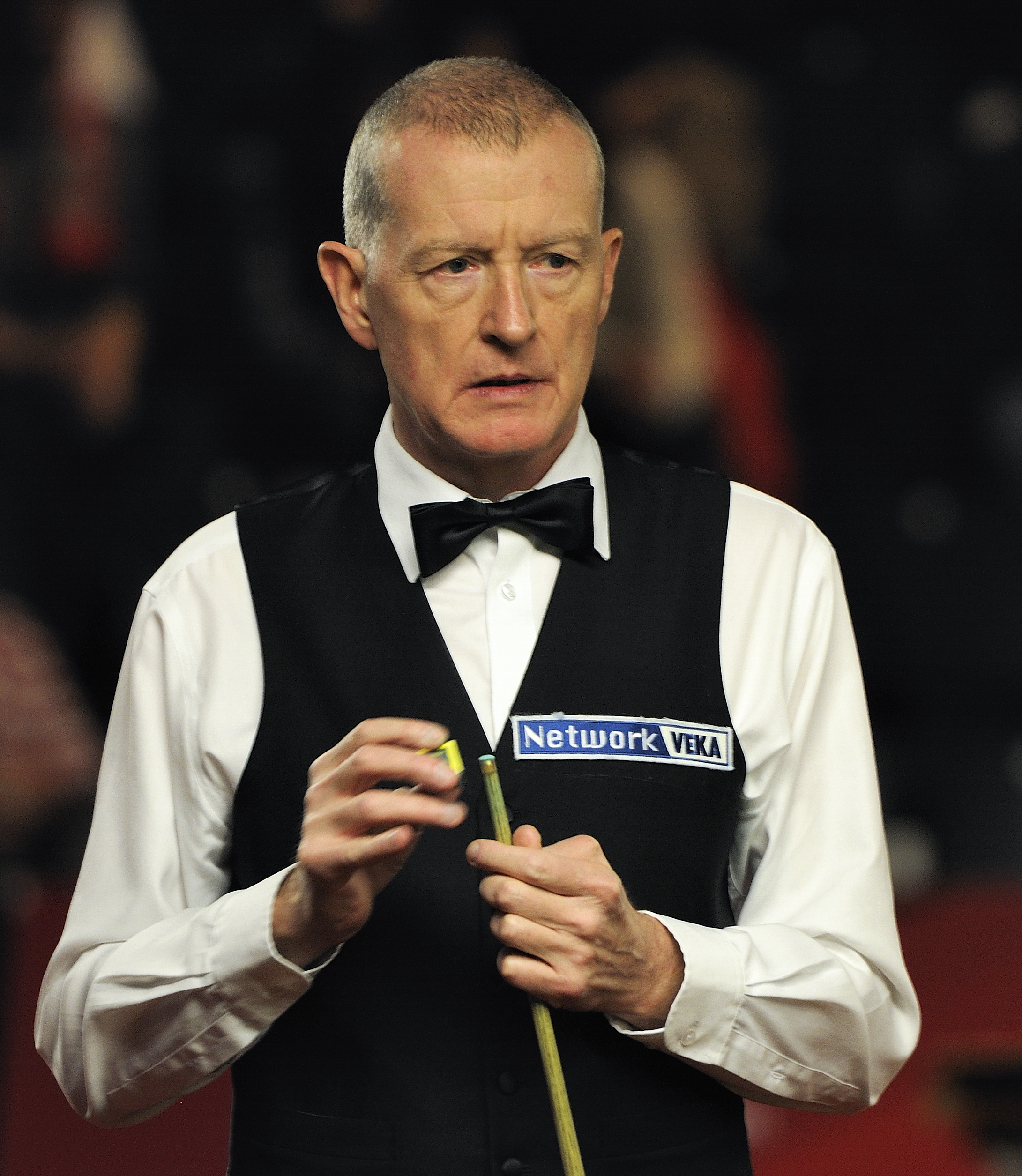 Picture taken in Berlin during the Snooker German Masters in 2014. Steve Davis.